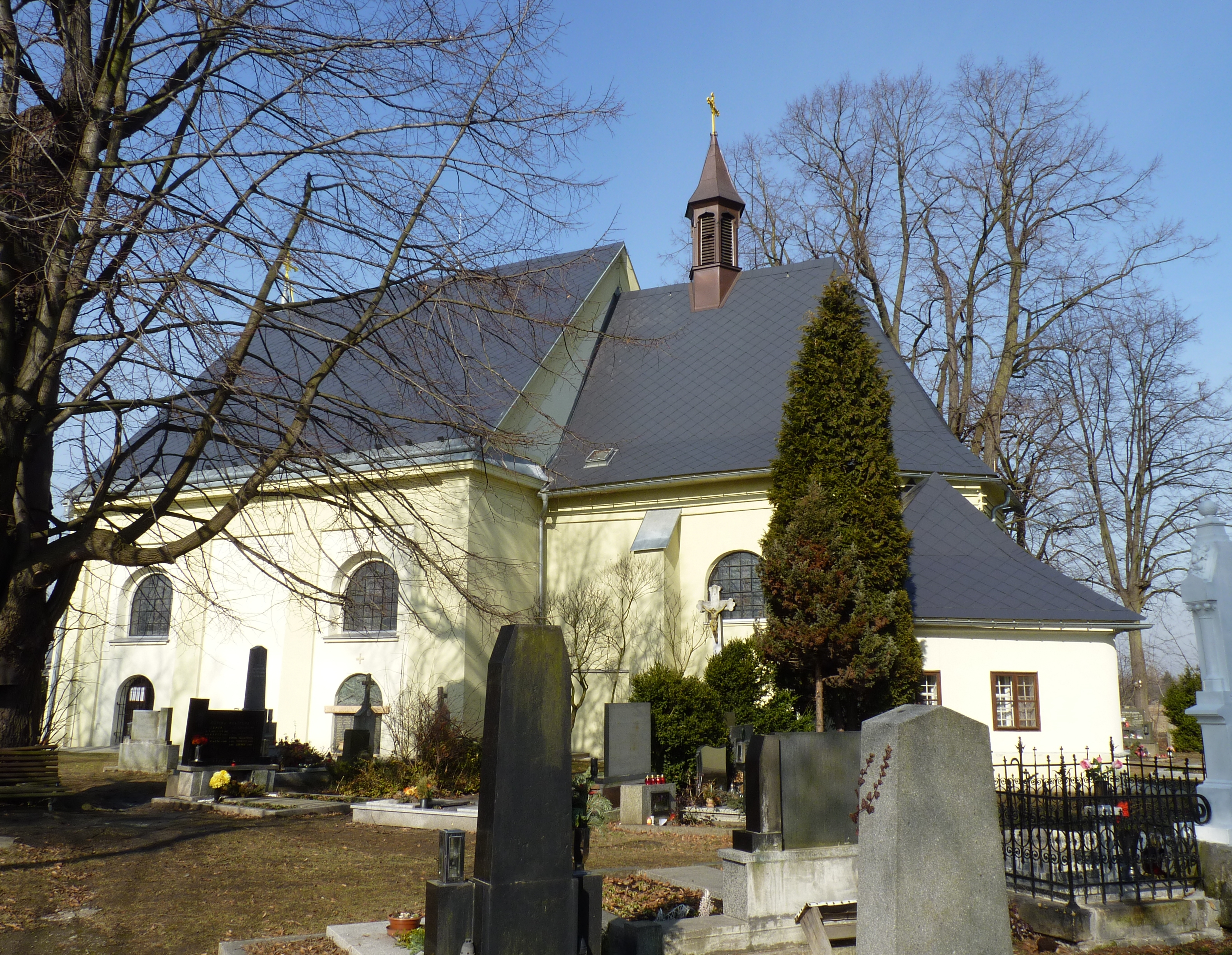 Church of Saint Bartholomew in Nová ves, Ostrava. Ostrava-city District, Moravian-Silesian Region, Czech Republic